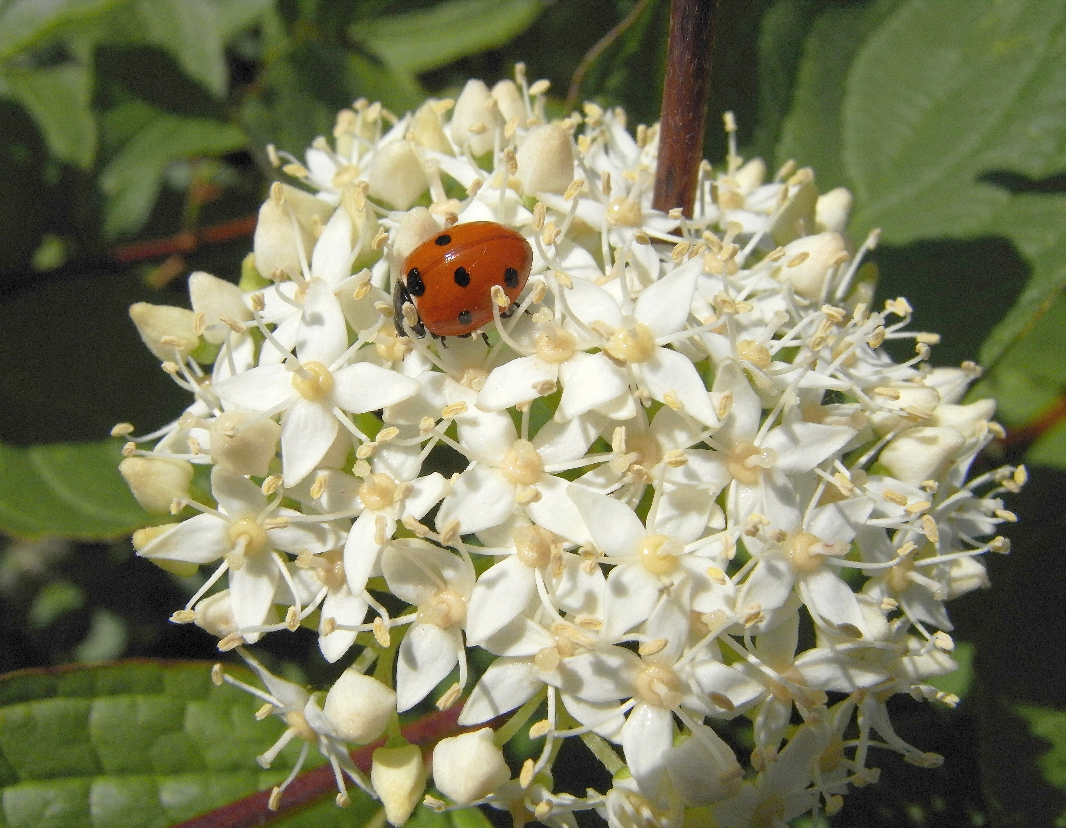 Cornus sanguineus